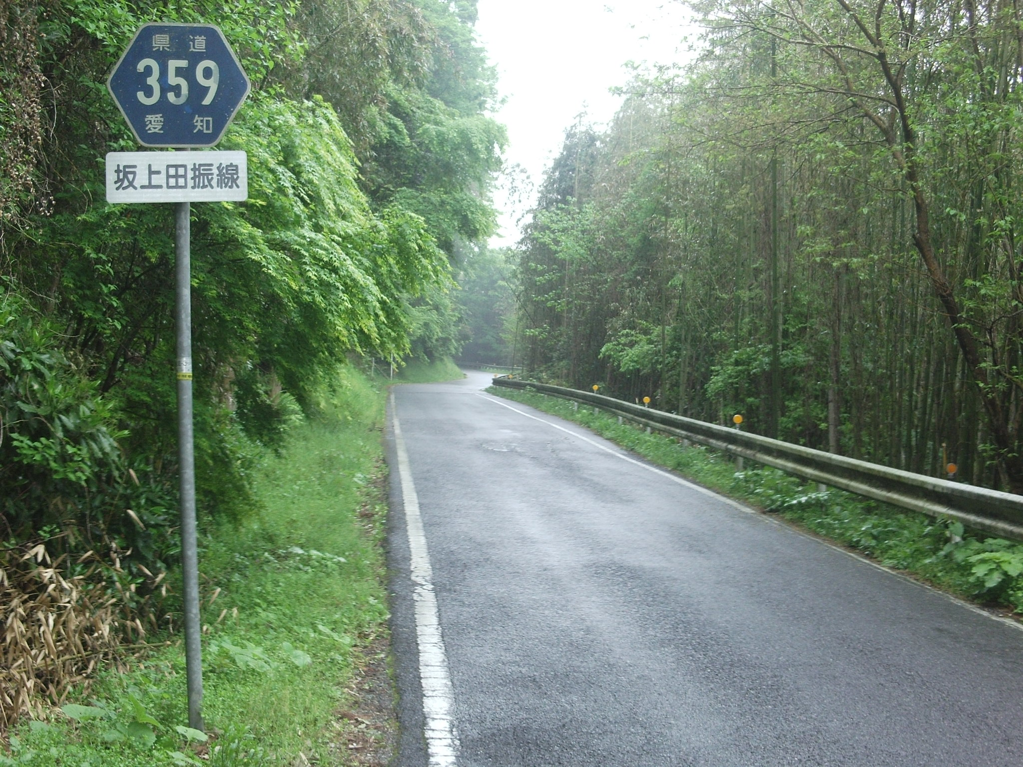 Aichi prefectural road No.359 in Taburicho, Toyota, Aichi.